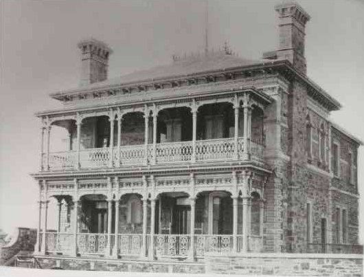 Birralee, Glenelg. (One of two houses named "Birralee" owned by William Burford.) This one was located at 16 Albert Terrace, Glenelg South, on the corner of "Seawall". This location is now known as the corner of Broadway and South Esplanade. The house has been demolished. The site is currently occupied by a number of single-story units.